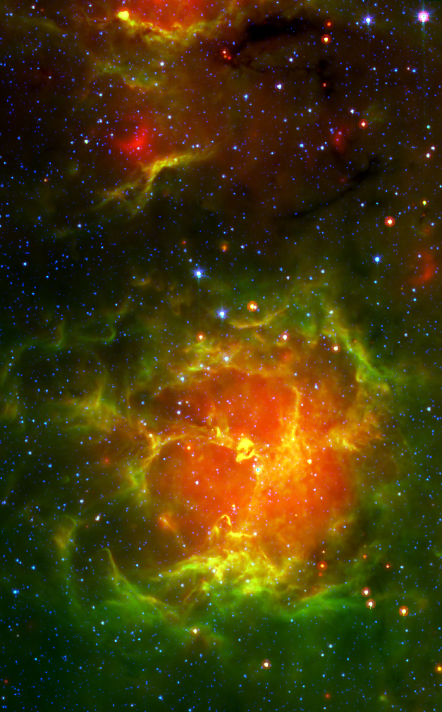 Image of the Trifid Nebula in Infrared at 3.6 (blue), 8.0 (green) and 24 (red) µm. The image has been made by myself (Médéric Boquien) from the public image archive of the Spitzer Space Telescope (courtesy NASA/JPL-Caltech)